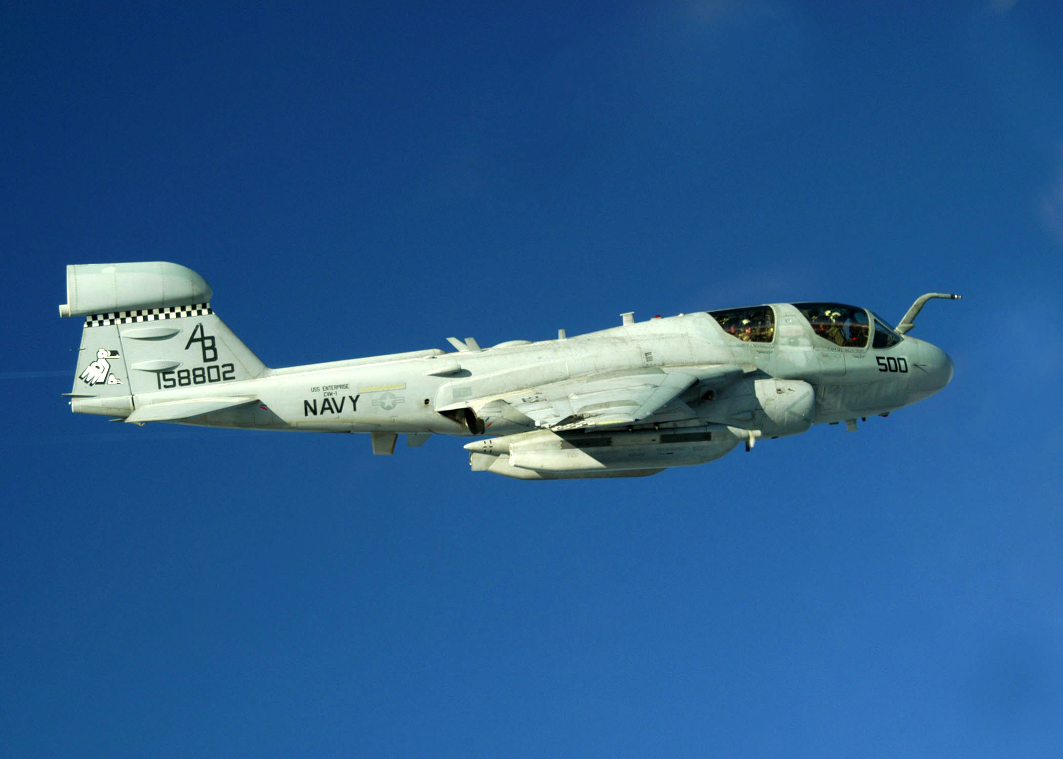 Arabian Gulf (Nov. 30, 2003) -- An EA-6B Prowler assigned to the “Rooks” of Electronic Attack Squadron 137 (VAQ-137) flies a mission in support of Operation Iraqi Freedom. VAQ 137 is currently deployed with Carrier Air Wing One (CVW-1) aboard USS Enterprise (CVN-65) in the Arabian Gulf. U.S. Navy photo by Lt. j.g. Victor Dymond. (RELEASED)